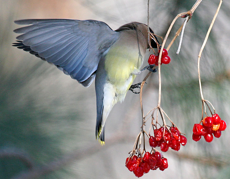 Cedar Waxwing (Bombycilla cedrorum) eating berries